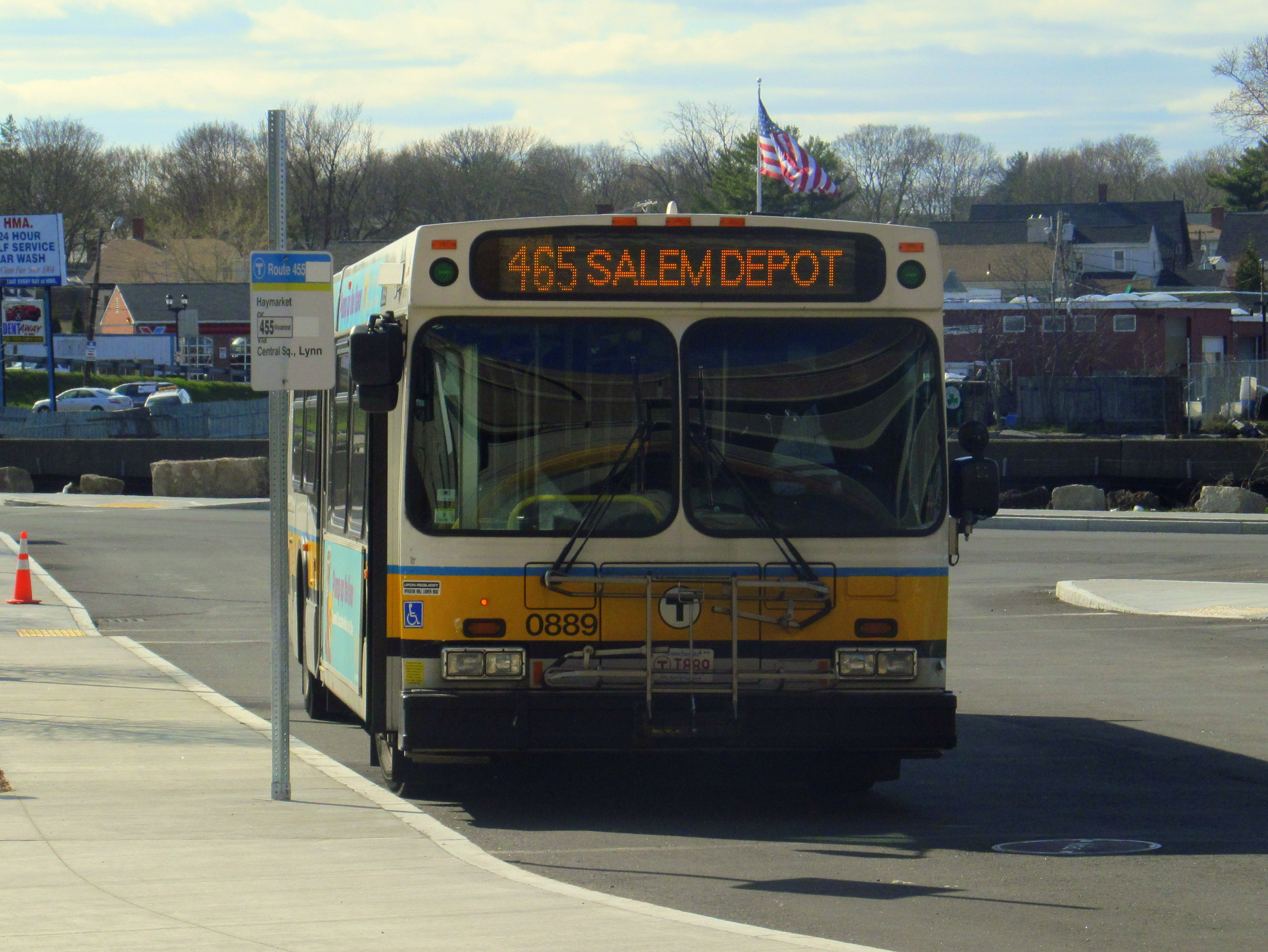 A route 465 bus laying over in the busway at Salem station in April 2015